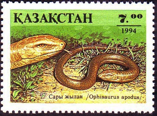 Stamp of Kazakhstan